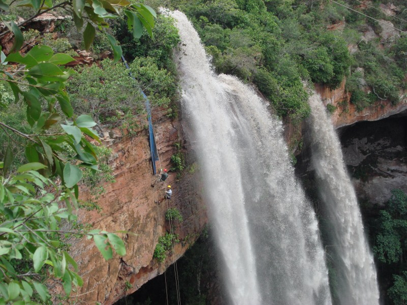 Cachoeira Cortina da Onça